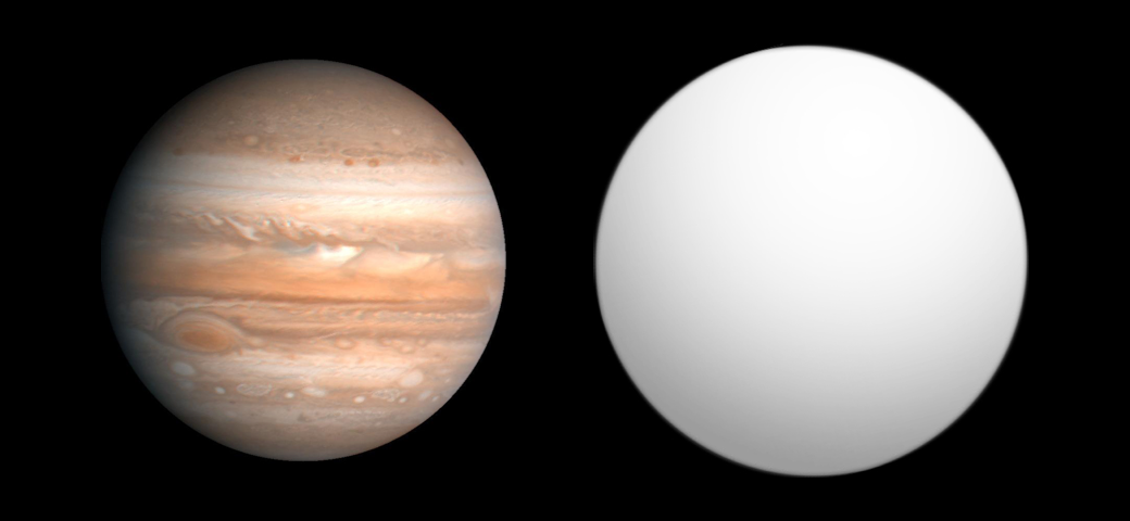 Comparison of best-fit size of the exoplanet HAT-P-15 b with the Solar System planet Jupiter, as reported in the Open Exoplanet Catalogue[1] as of 2010-09-30. ↑ Open Exoplanet Catalogue (2010-09-30). Retrieved on 2010-09-30.